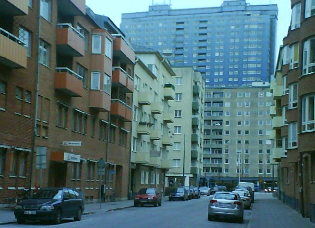 A view from Lundbergsgatan in Västra Innerstaden in Malmö.